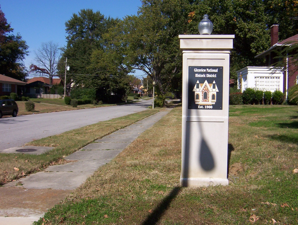 Glenview National Historic District in Memphis, Tennessee. Photo made from South Parkway. I made the photo myself, feel free to use it.